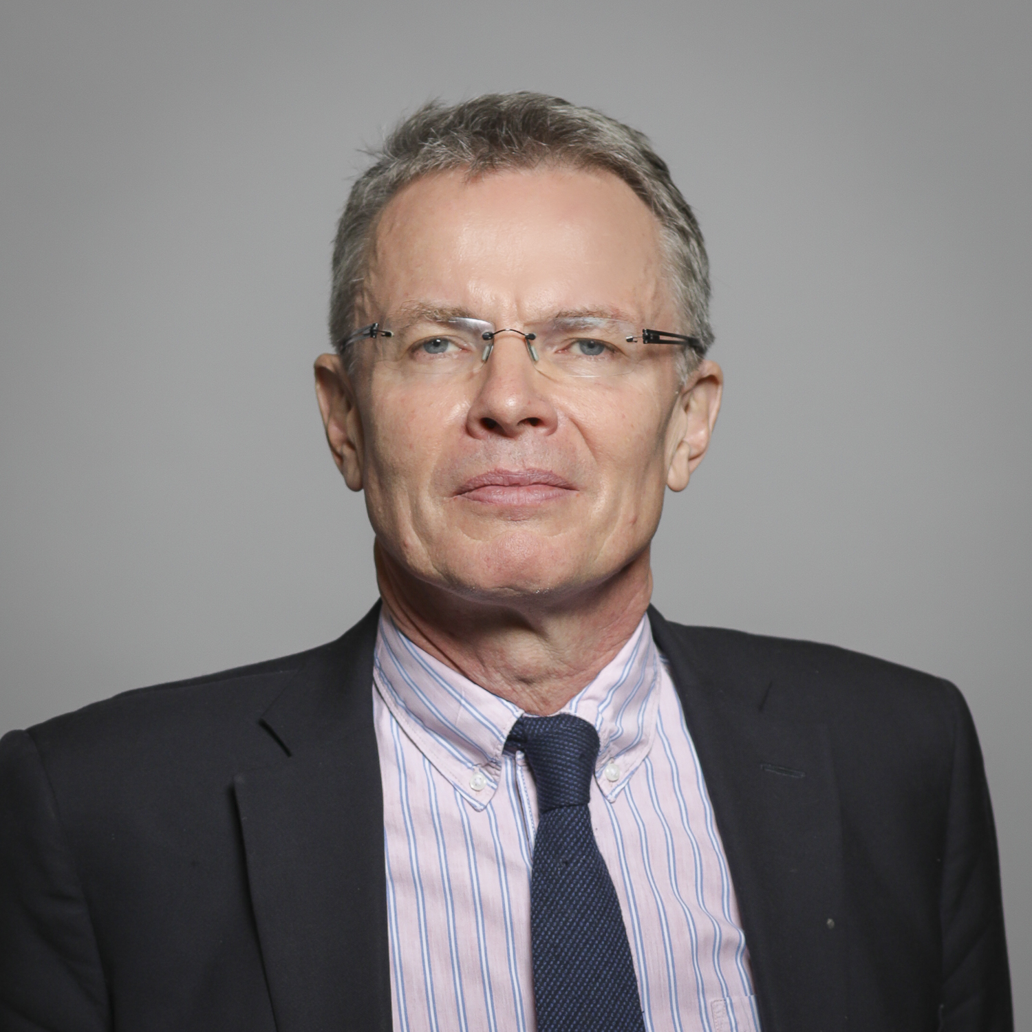 Official portrait of Viscount Colville of Culross 1×1 portrait of Viscount Colville of Culross